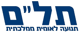 Logo present on the website of Moshe Ya'alon's Telem Party.